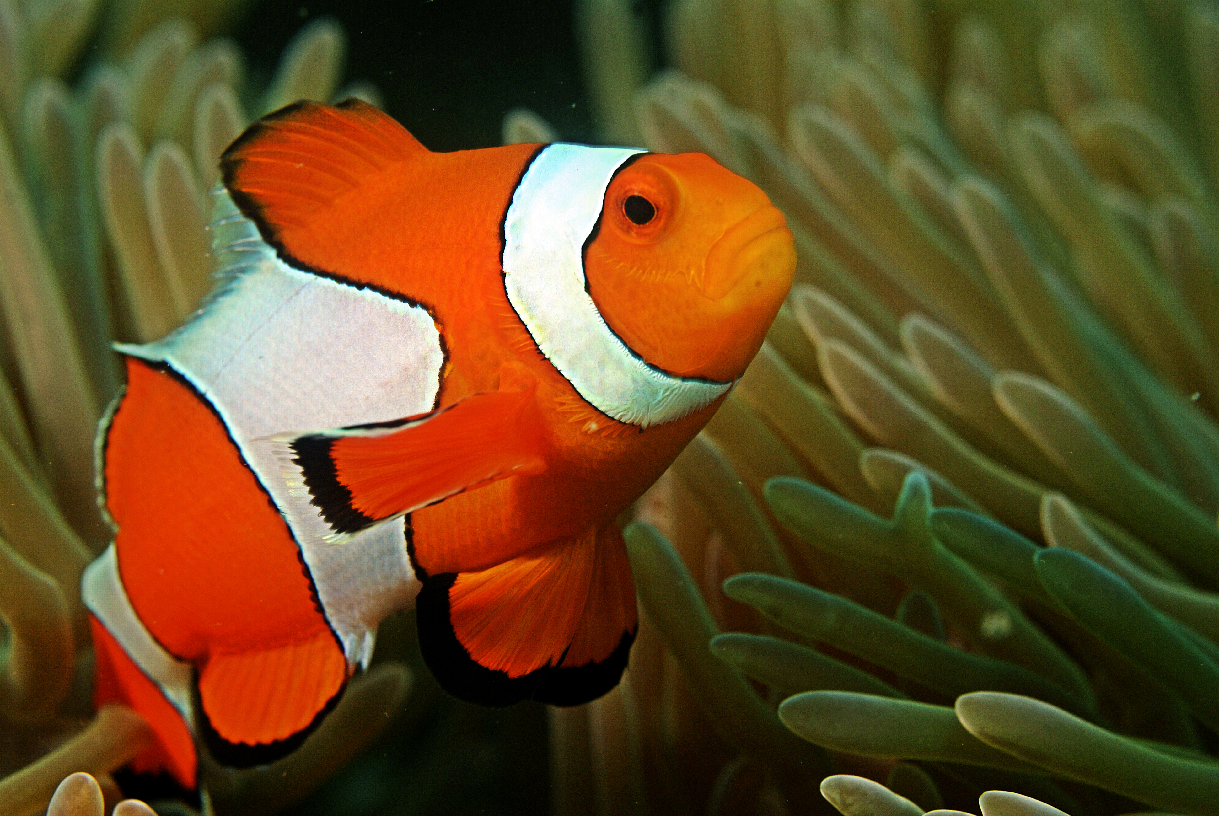 Clown fish in the Andaman Coral Reef.